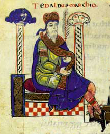 Drawing of count Tedald of Canossa (d. 1012). From the Vita Mathildis.